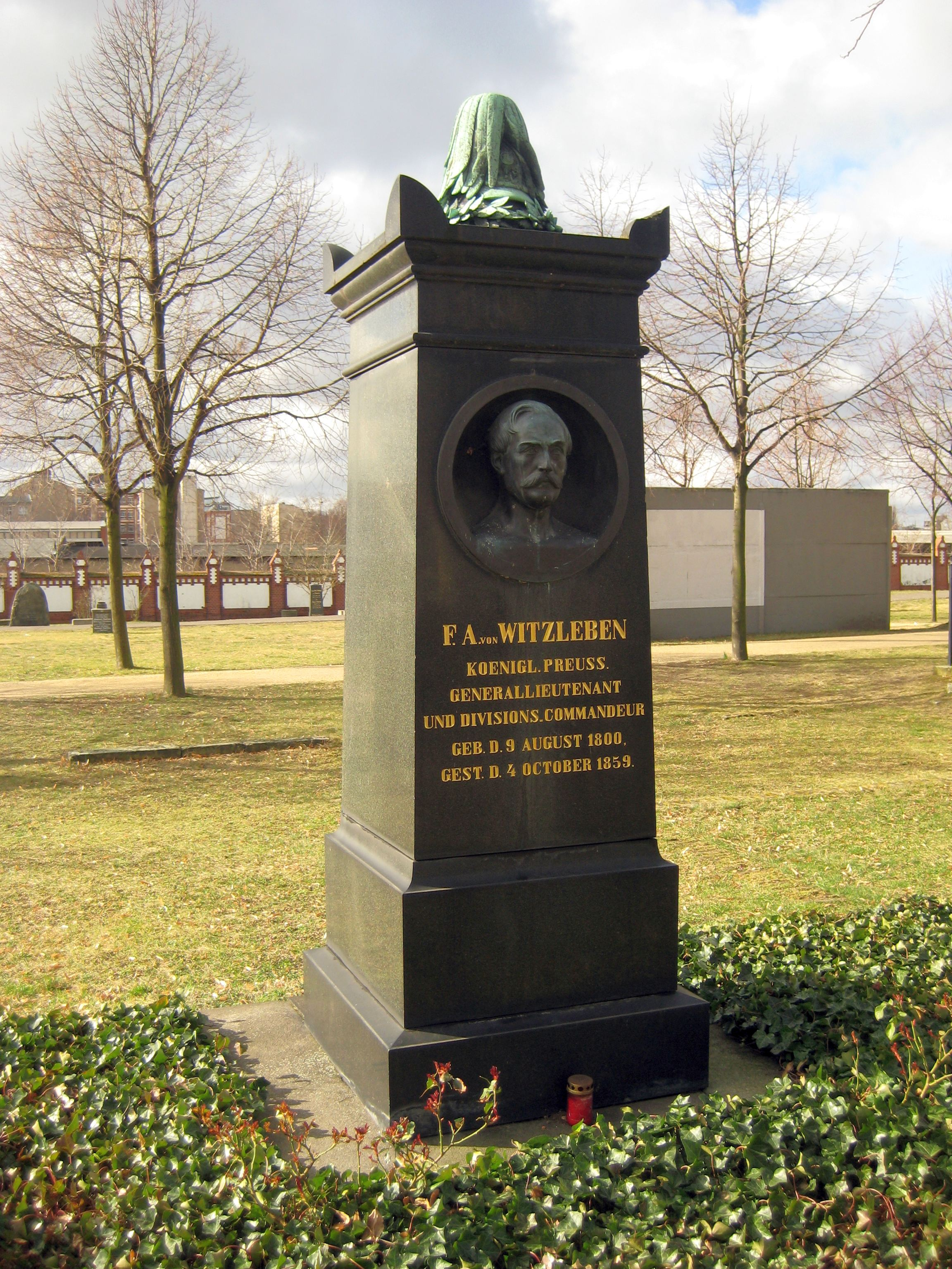 grave monument for Ferdinand August von Witzleben (1800-1859) on Invalidenfriedhof cemetery in Berlin